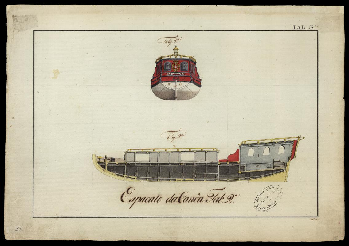 Section of a canoe built for the Scientific Expedition of Alexandre Rodrigues Ferreira. Hand-coloured etching by Joaquim José Codina (17??). Collection of the Biblioteca Nacional do Brasil.